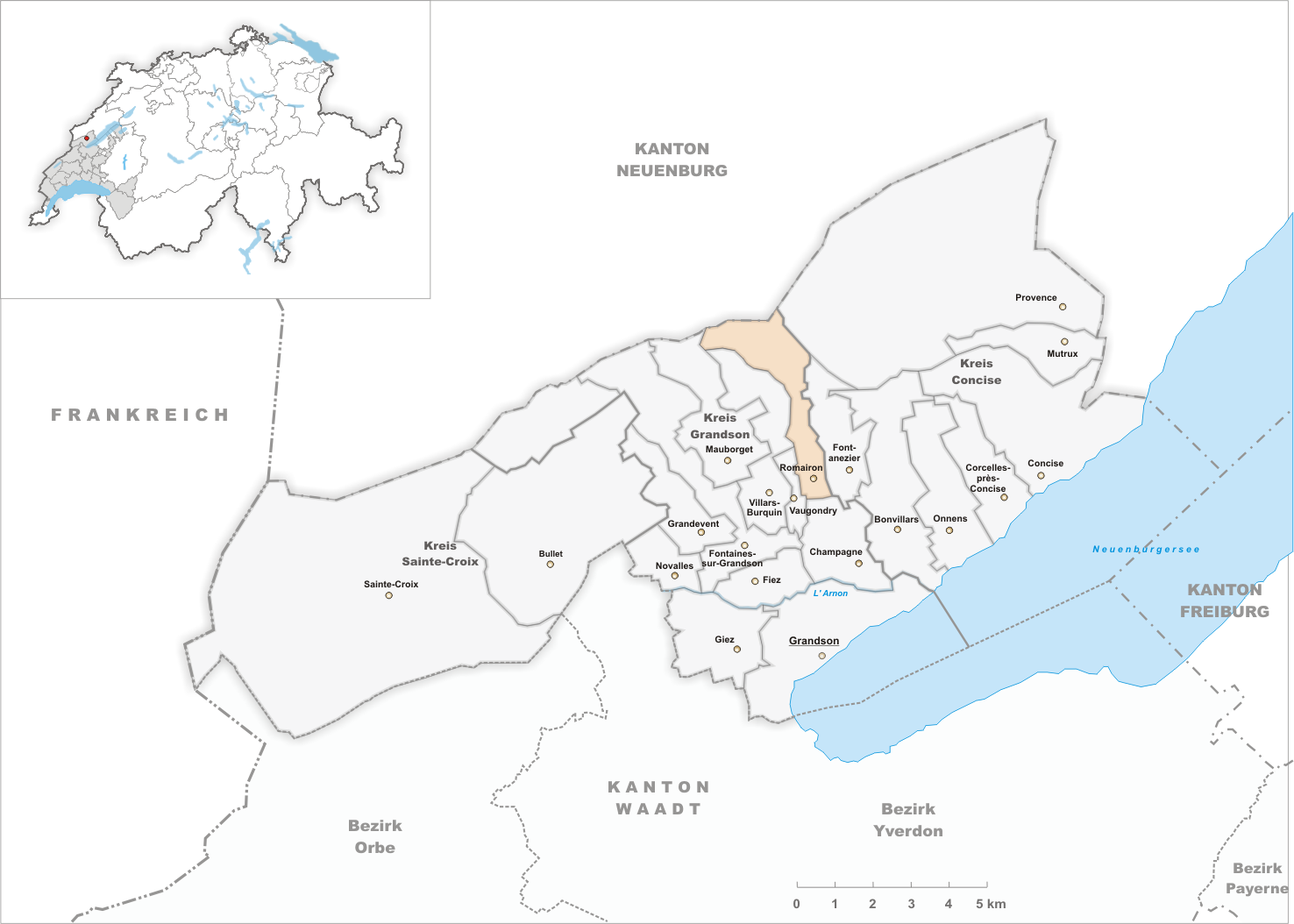 Municipality Romairon